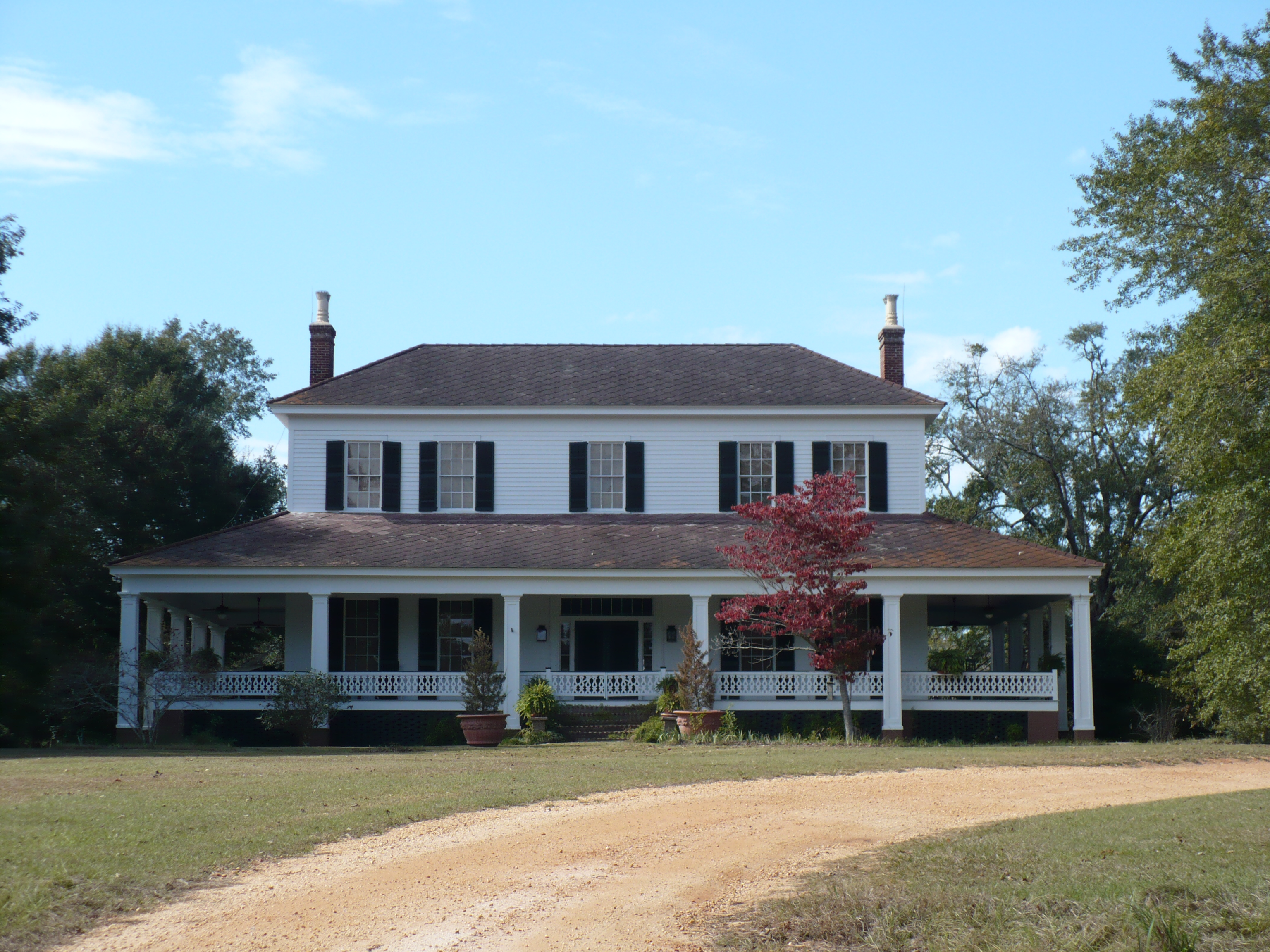 The Tait-Ervin House near Camden, Wilcox County, Alabama.